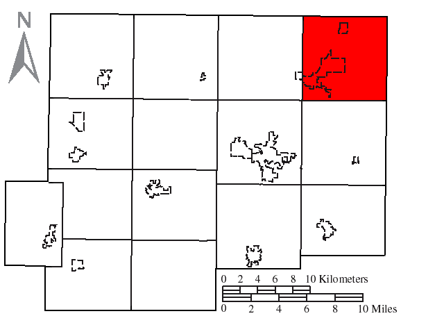 Made by the US Census and modified by myself